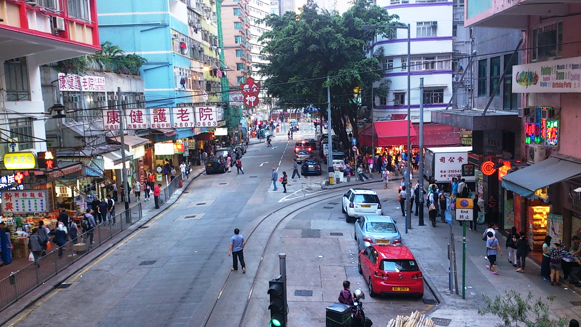 North Point Road near Chun Yeung Street